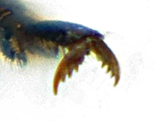 Lebia cruxminor claw of hind leg